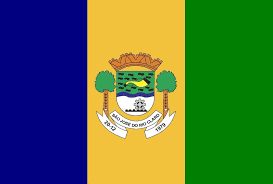 Flag of São José do Rio Claro (Mato Grosso) - Copyrited by the brazilian law of Industrial Preperty (Law 9.279/ 14/05/1996